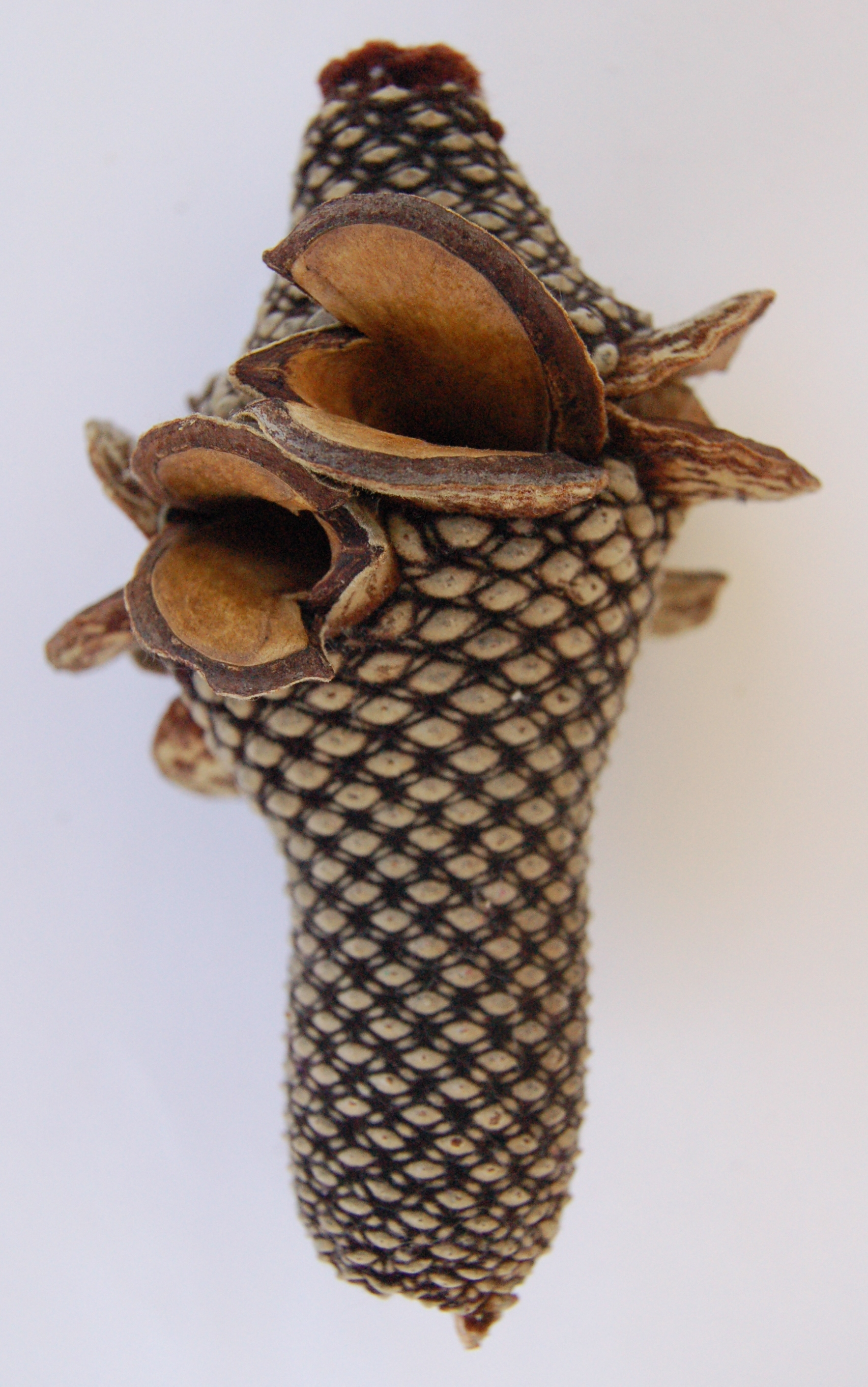 This is a photograph of a Banksia menziesii (Menzies' Banksia) infructescence, commonly referred to as a "cone", although strictly speaking it is not a cone.